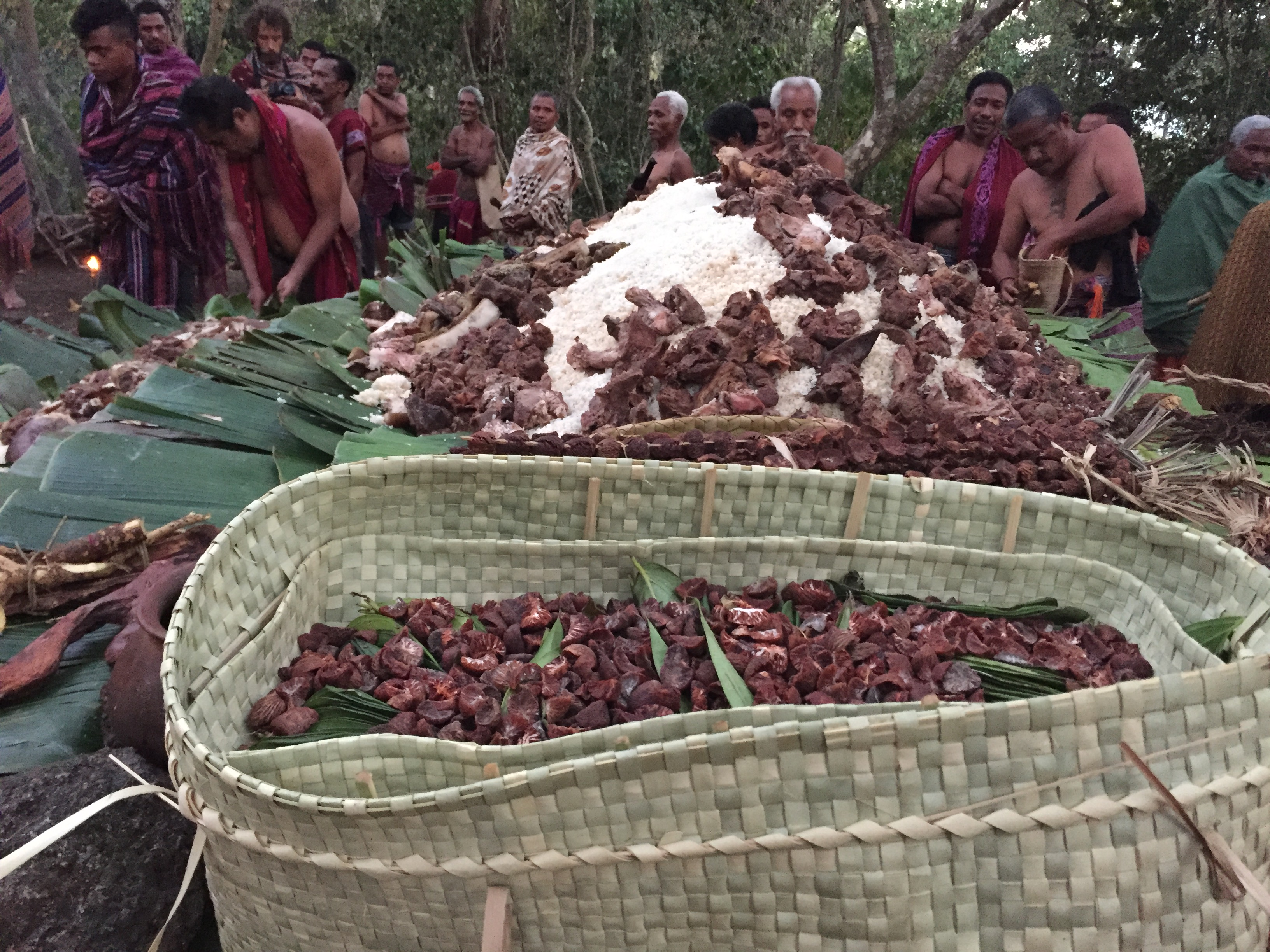 Baha Liurai. The sacrifice